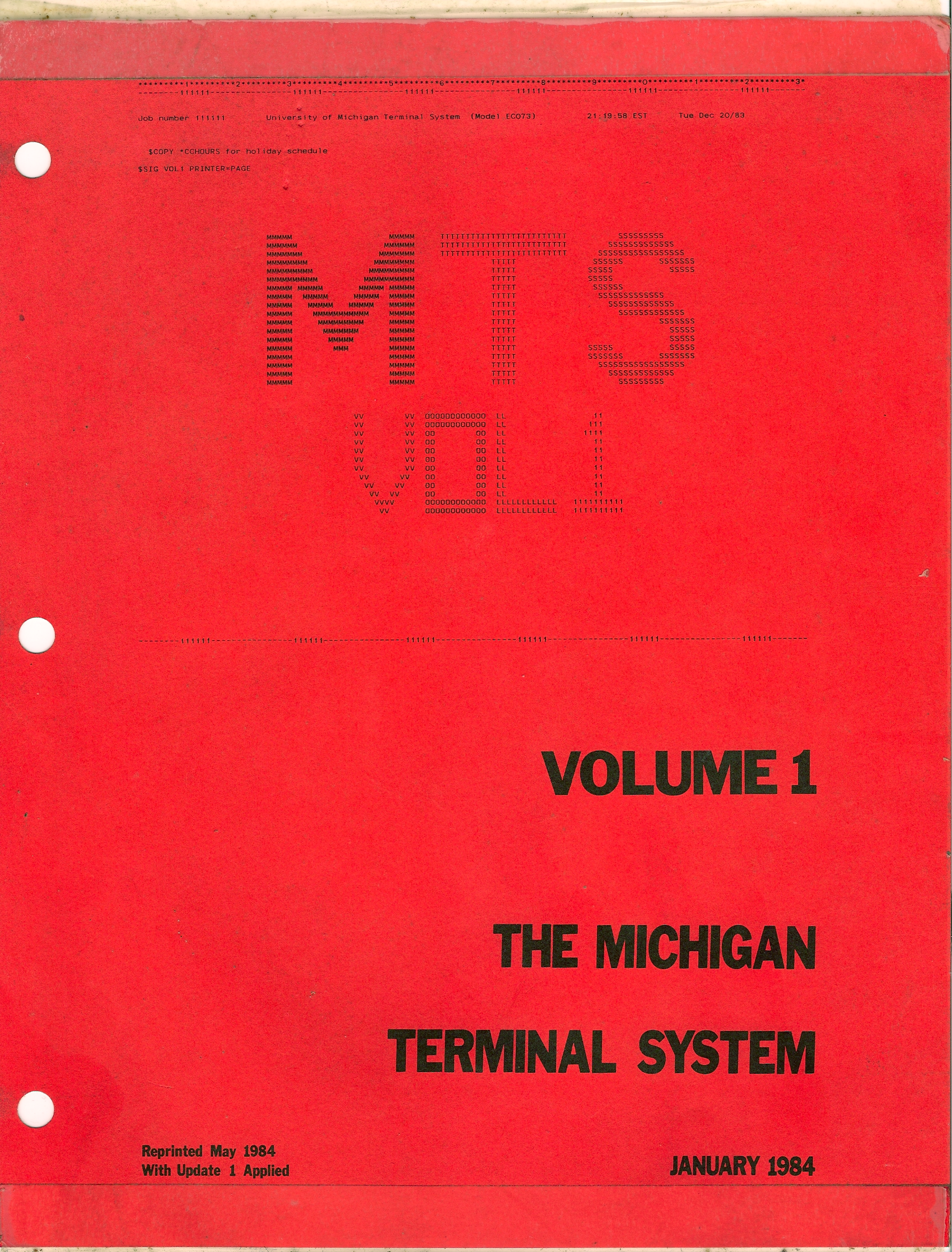 PNG version of MTSVol1Cover.tif